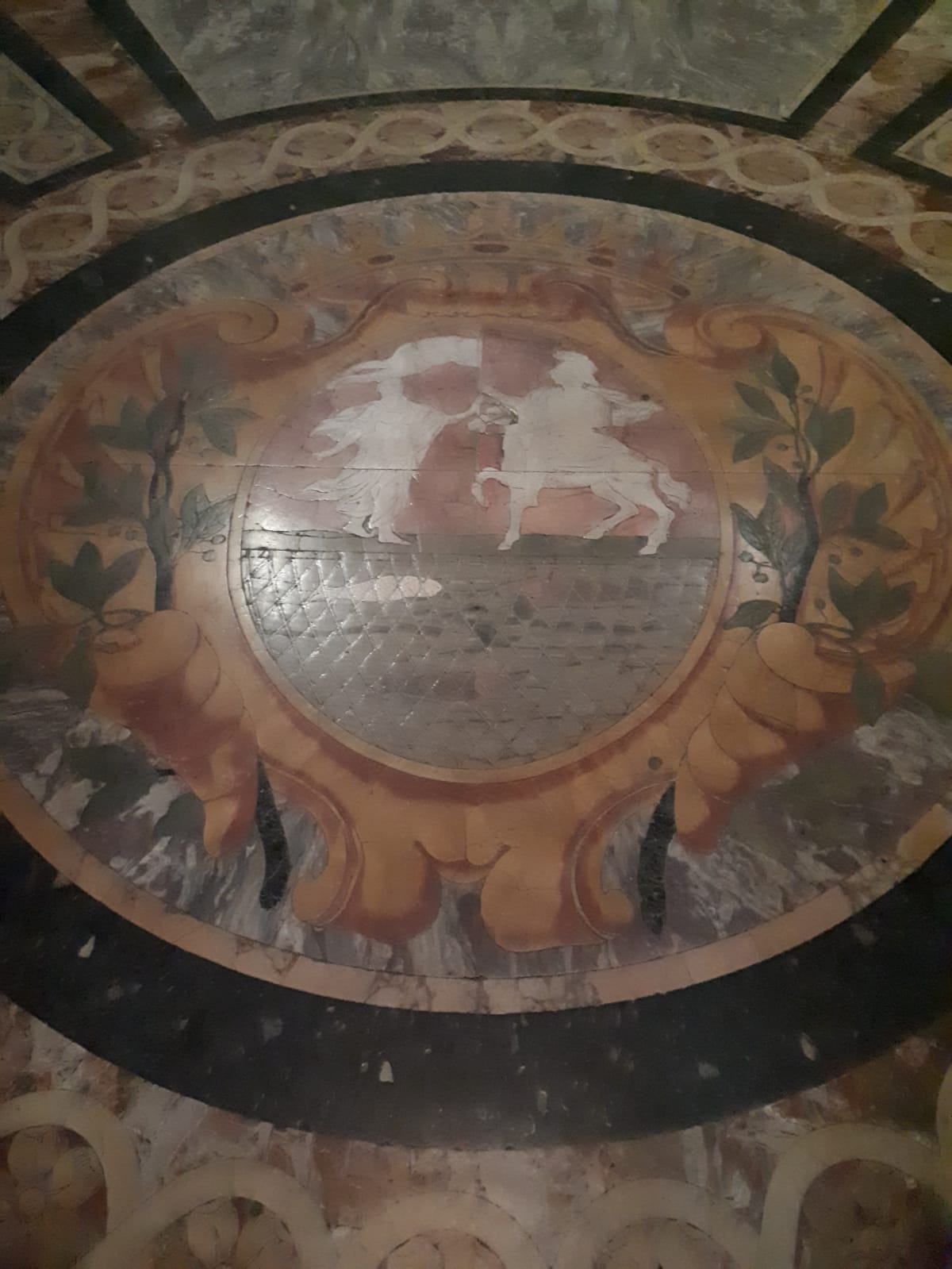 This is a photo of a monument which is part of cultural heritage of Italy. Questa è una foto di un bene culturale italiano che partecipa al concorso Wiki Loves Valle del Primo Presepe 2019, gestito in coperazione con Wikimedia Italia. This is a photo of a monument which is part of cultural heritage of Italy. This monument participates in the contest Wiki Loves Valle del Primo Presepe 2019, operated in cooperation with Wikimedia Italia.